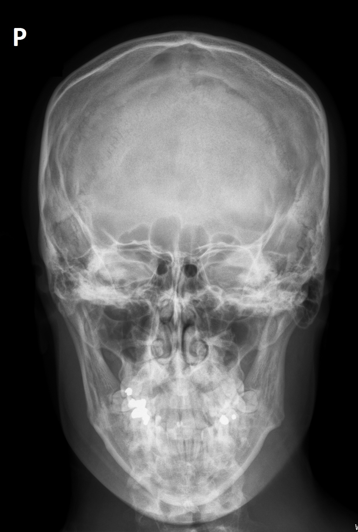 x-ray image of scull